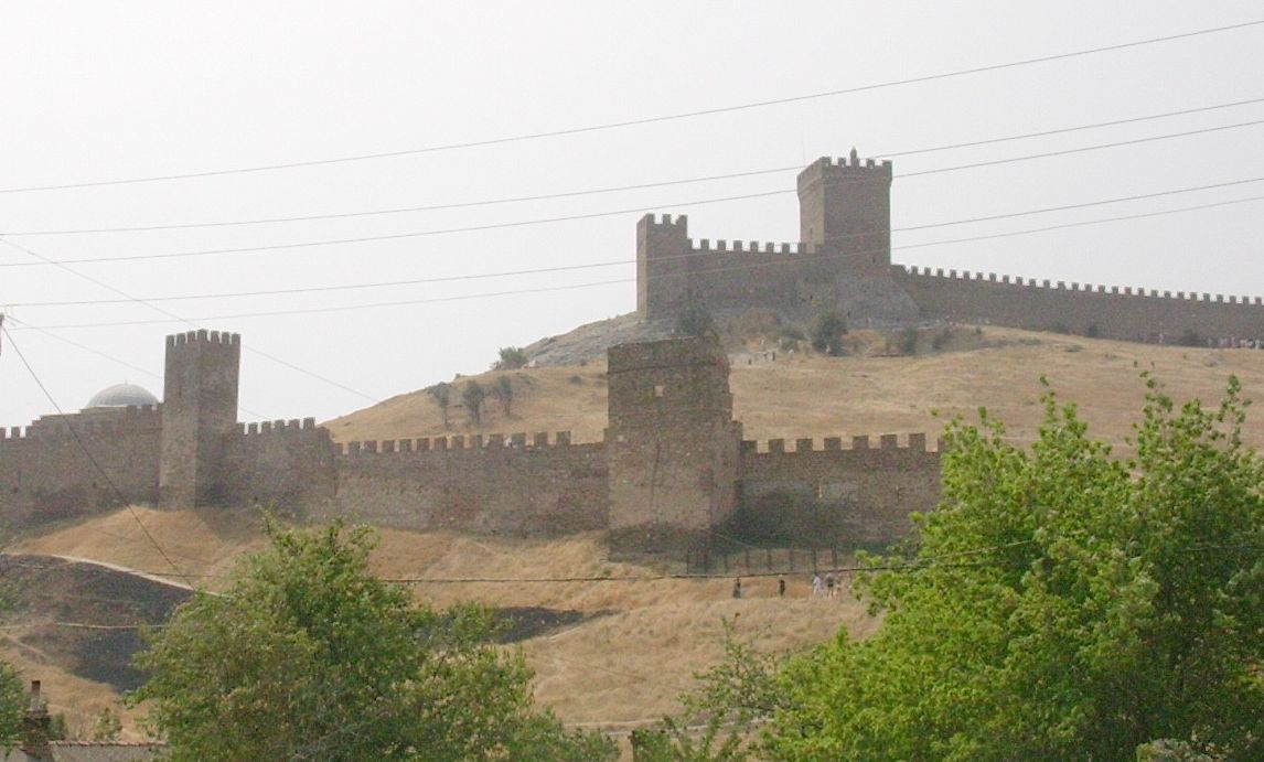 The genovese fortress in Sudak, Crimea, centuries 14th-15th